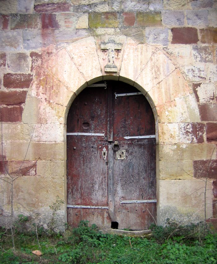 Church of Saint Peter in Barrio de San Pedro, Becerril del Carpio (Palencia, Castile and León).